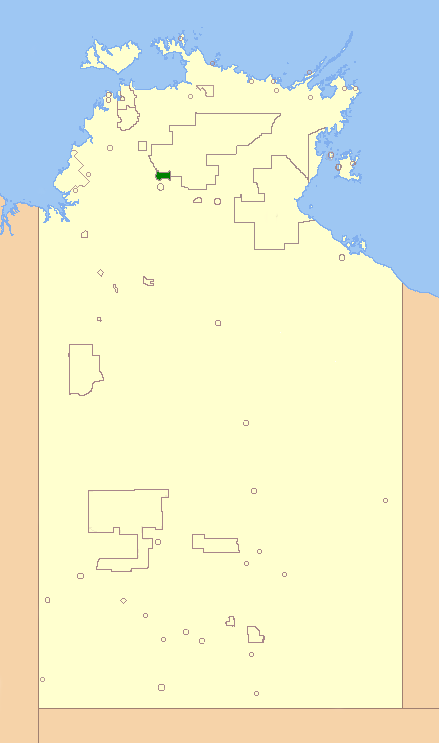 Location of Katherine Town Council in the Northern Territory